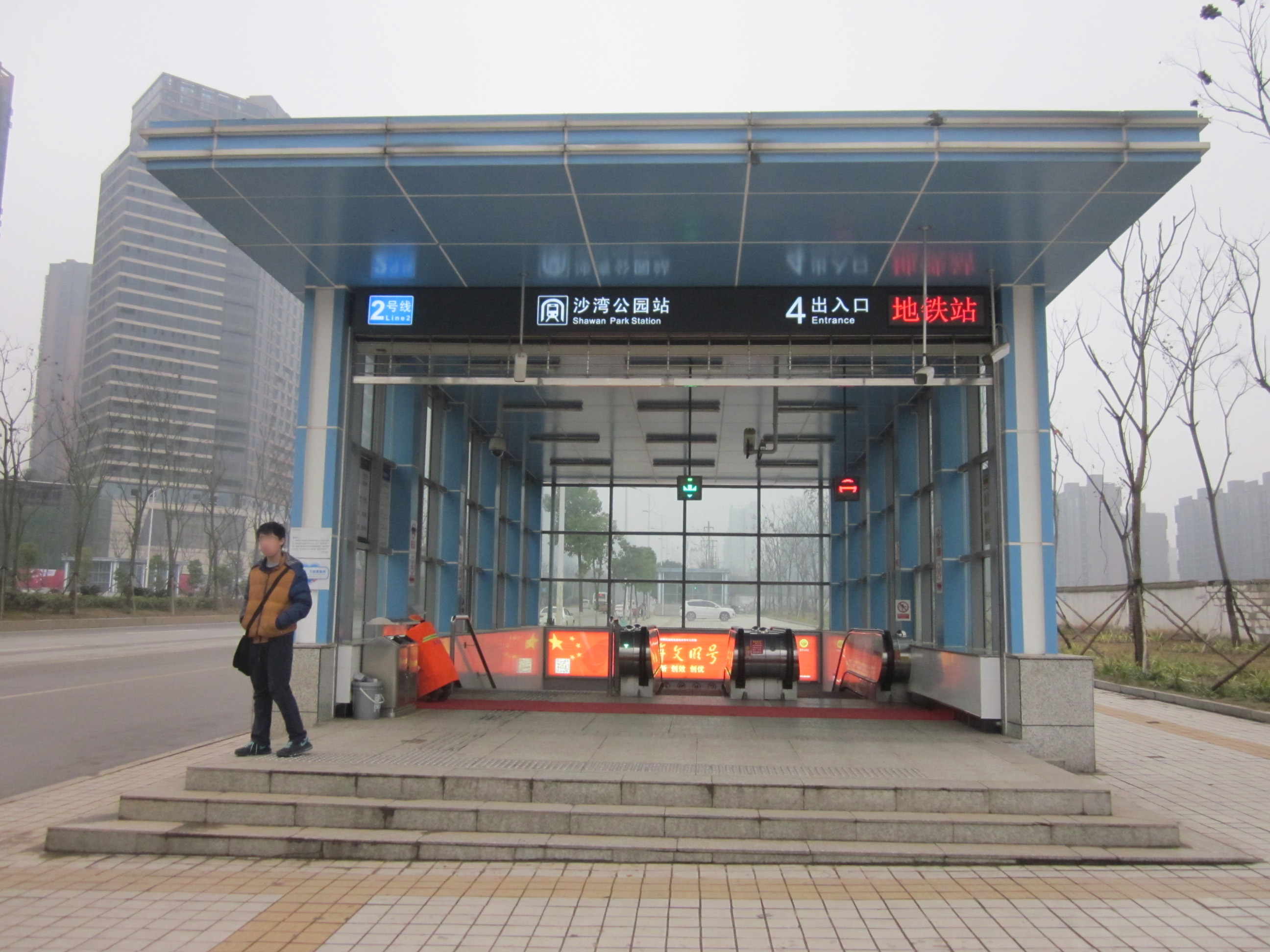 Shawan Park Station is a subway station in Changsha, Hunan, China, operated by the Changsha subway operator Changsha Metro.